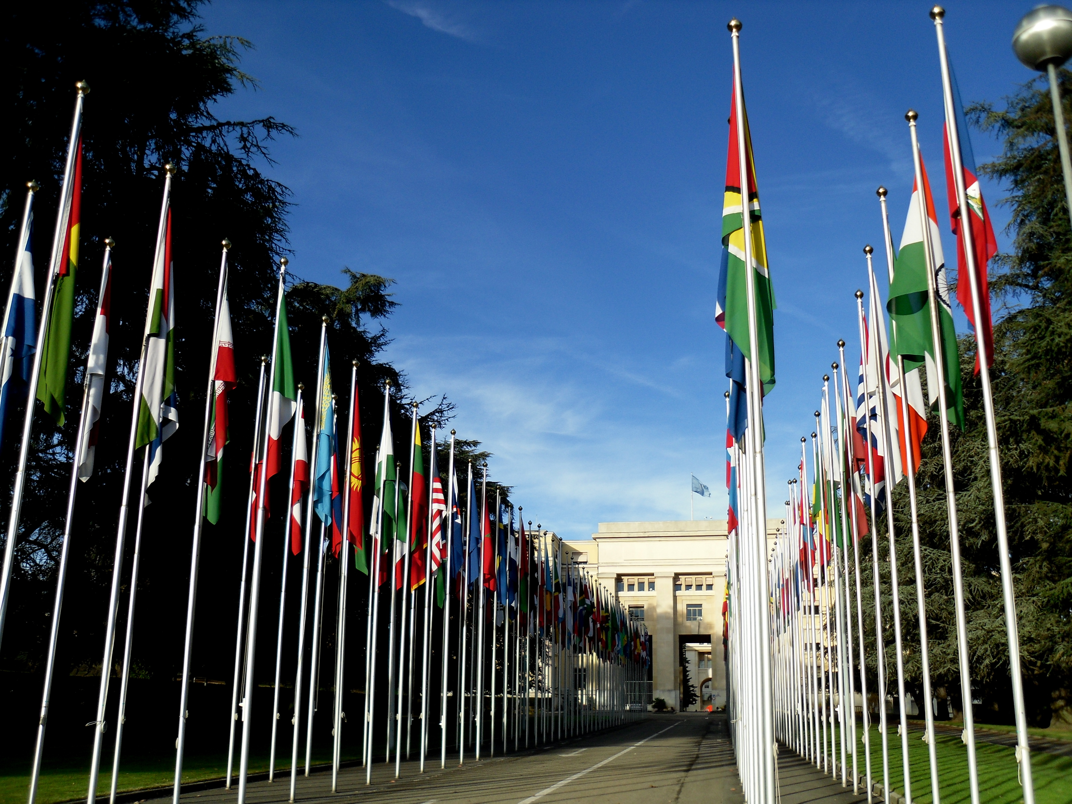 Palace of Nations. ONU at Geneva, Switzerland.